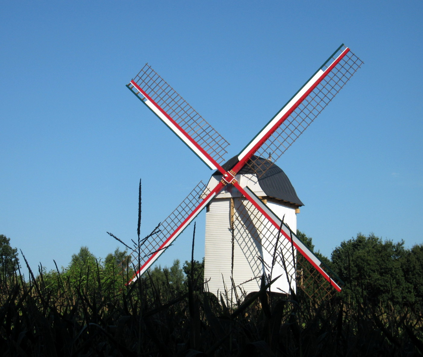 Renovated Leyssensmolen, on the Zandstraat in the Gemeente Kattenbos, Lommel.